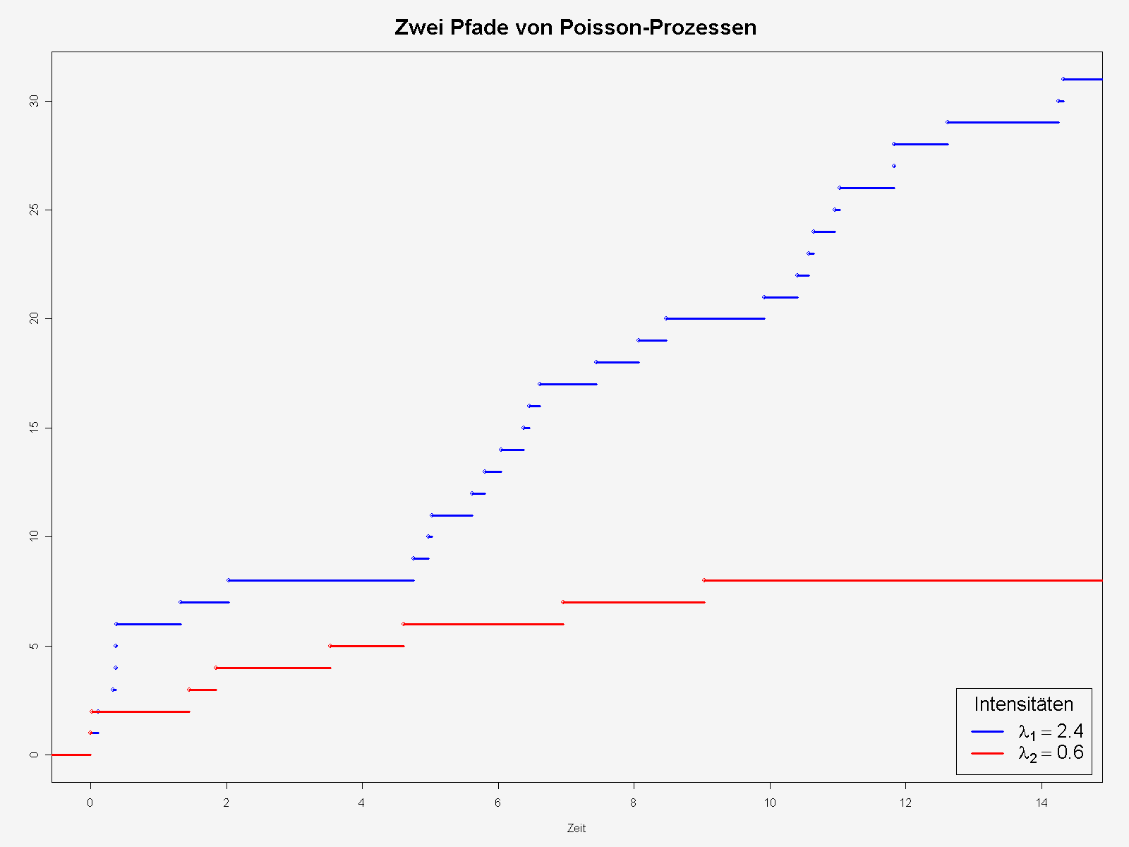 two trajectories of poisson processes. intensities: 2.4 and 0.6